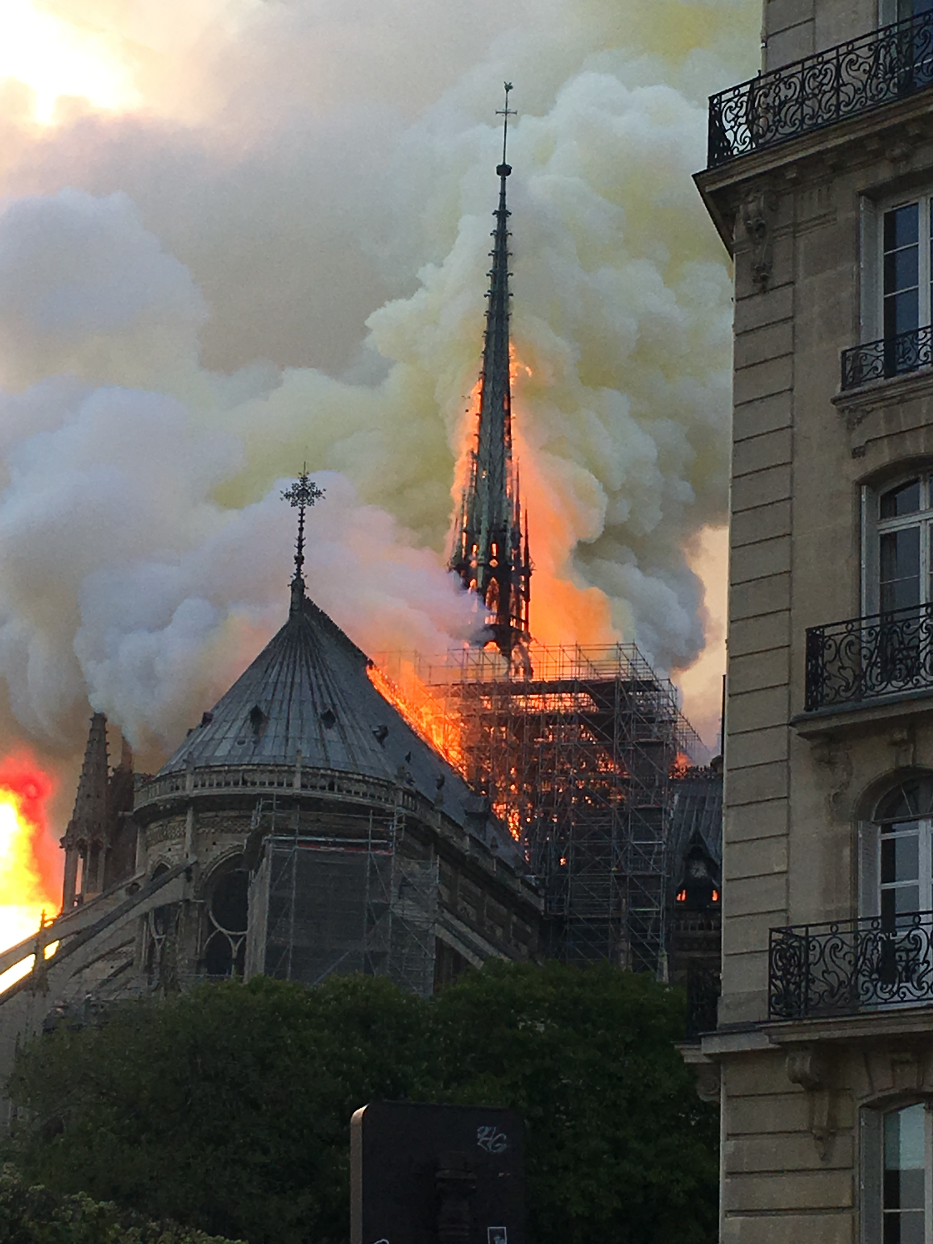 Notre Dame Cathedral's flèche (spire) on fire on 15 April 2019